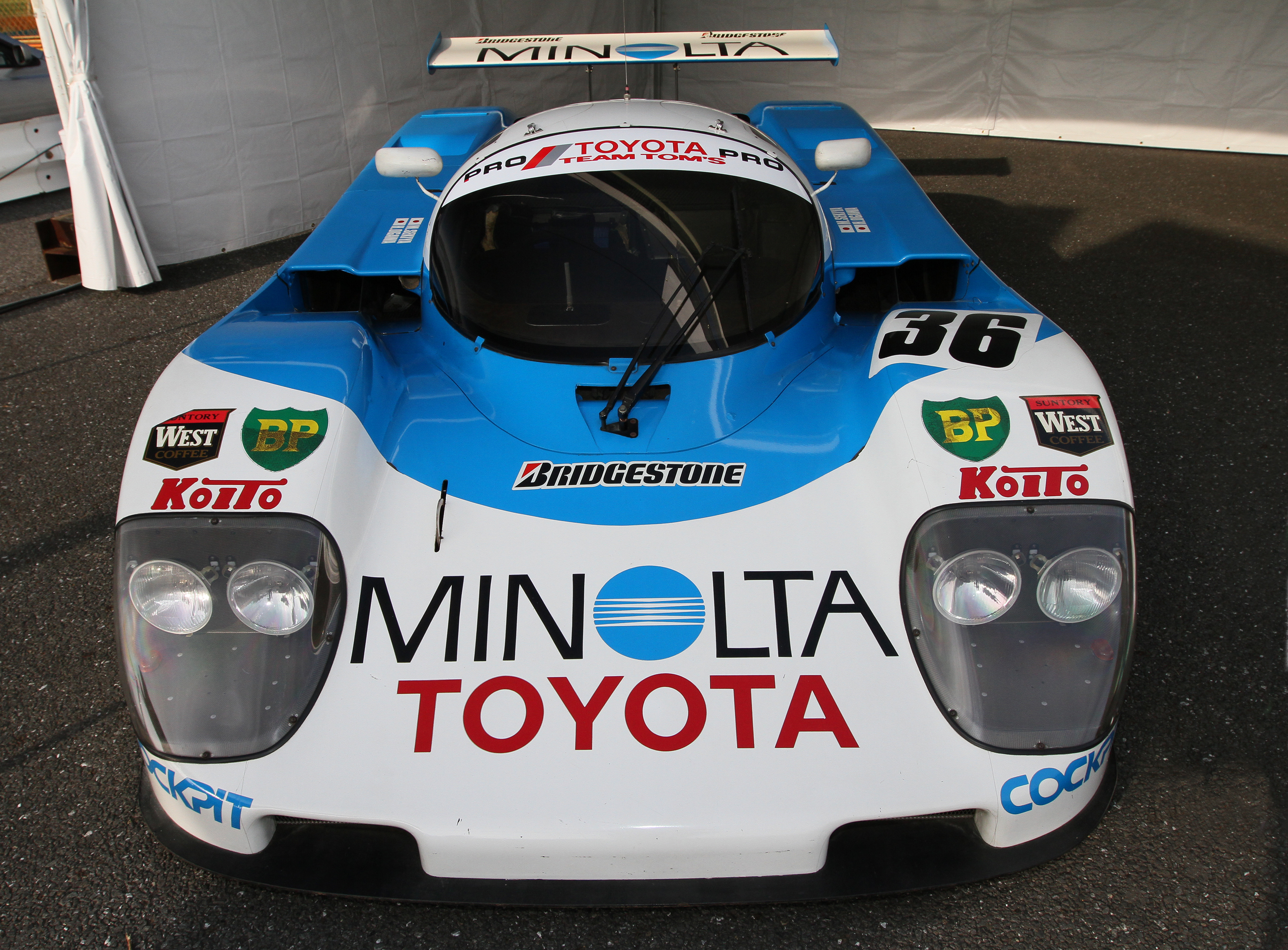 Motorsport Japan 2010: Toyota 90C-V